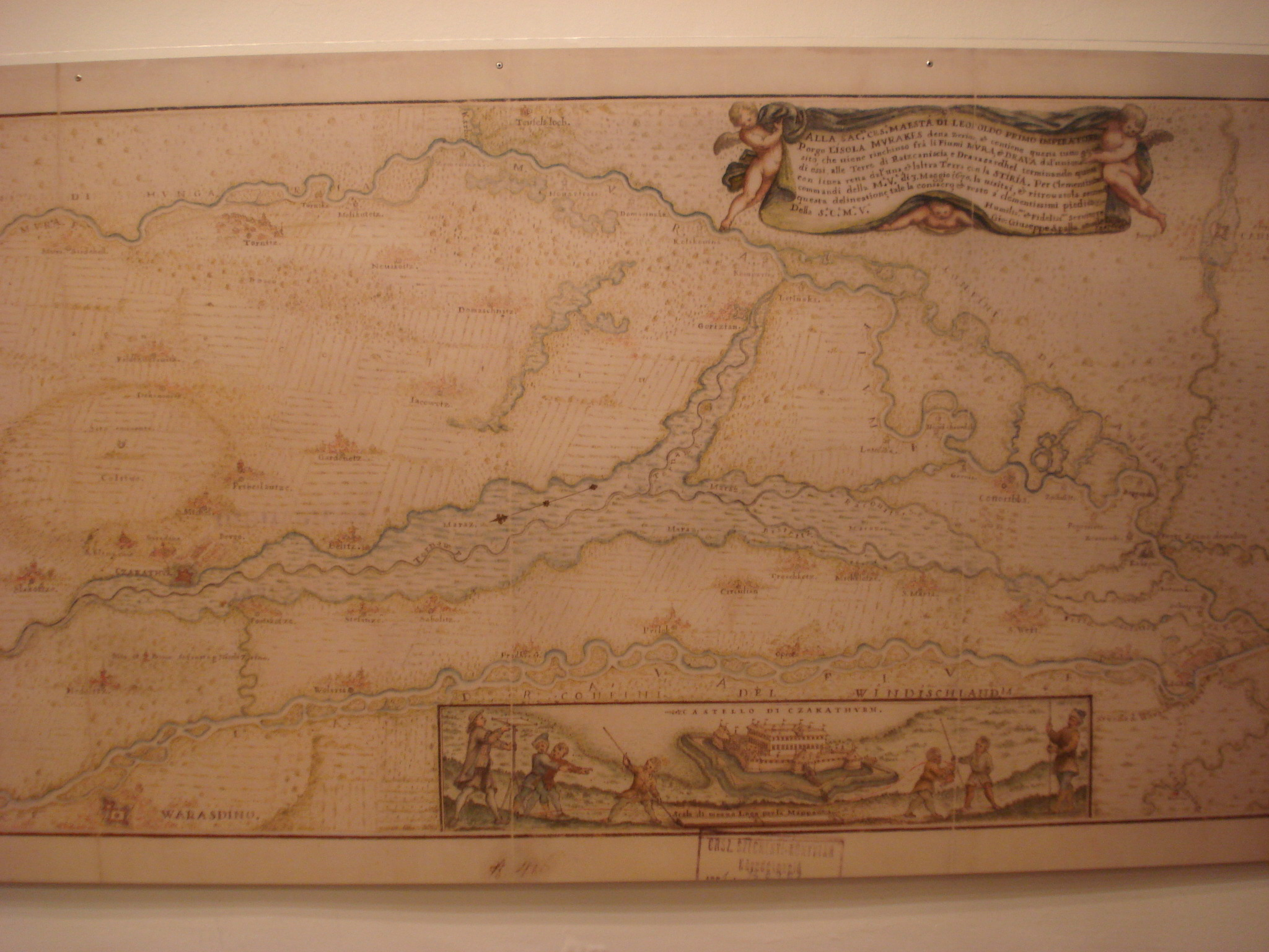 Old map of Medjimurie County, Croatia, made by Giovanni Giuseppe Spalla (1670)